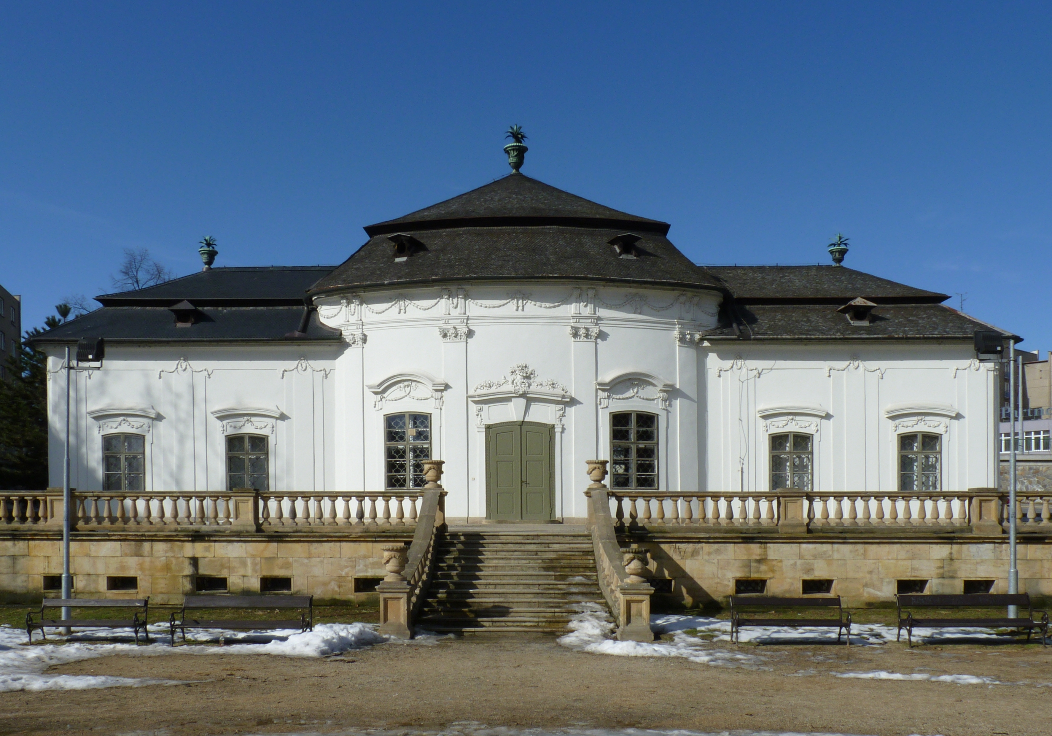 Villa Mitrovsky in Brno, Czech Republic